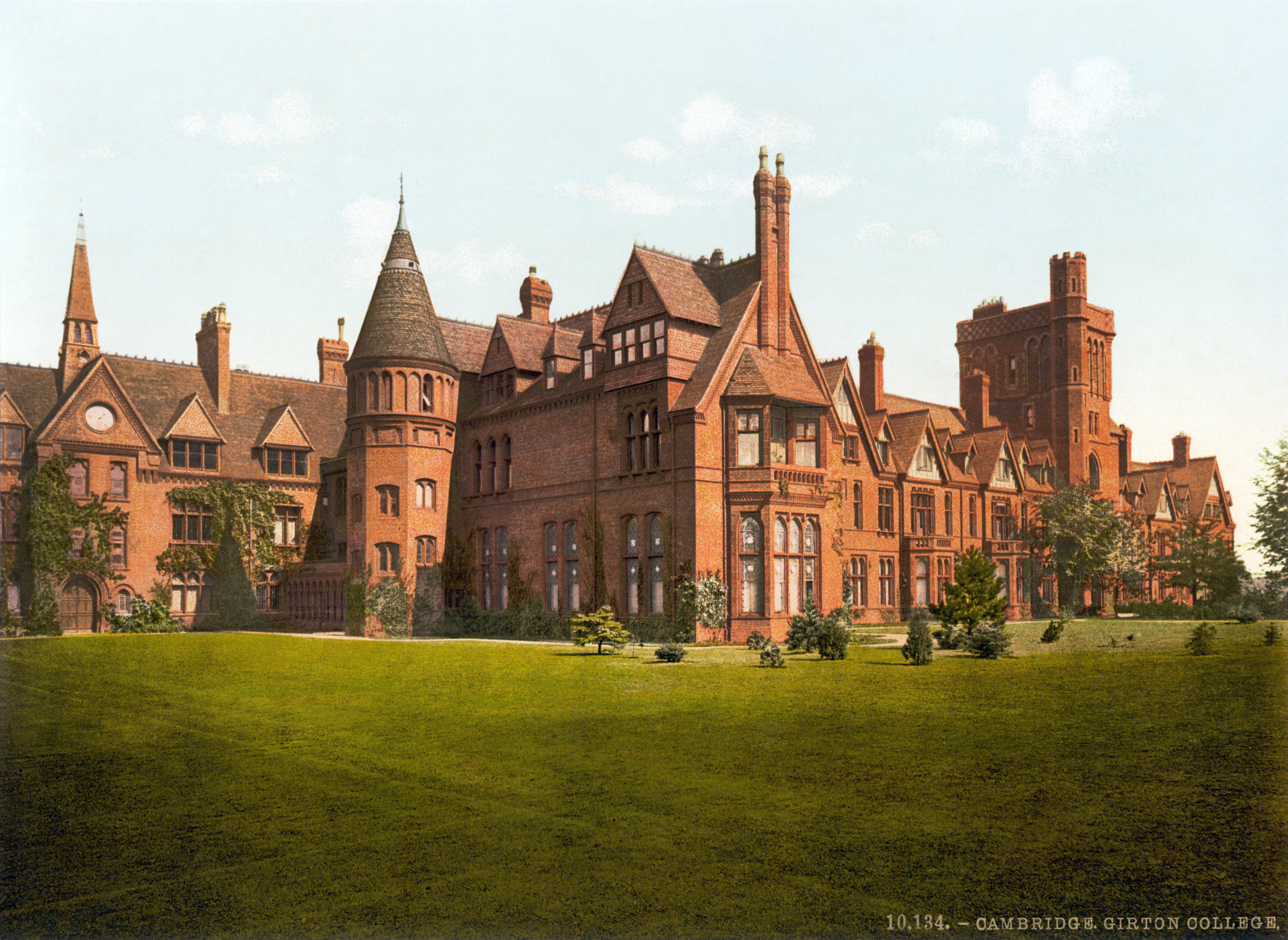 Cambridge, Girton College. 1 photomechanical print : photochrom, color.